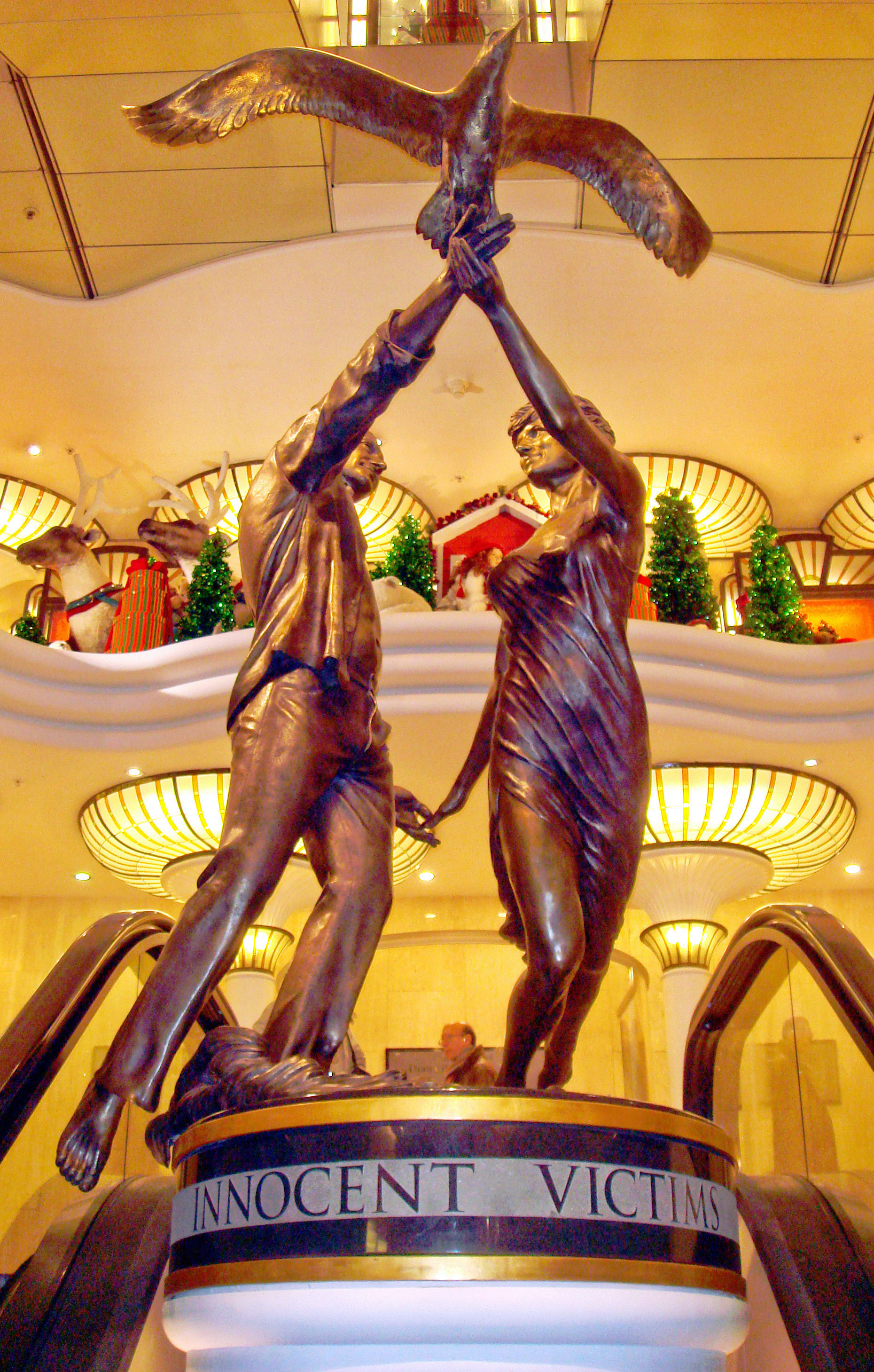 The second of two memorials to Diana, Princess of Wales, and Dodi Al-Fayed, located in the Harrods department store in London. The statue, unveiled in 2005, is titled Innocent Victims.